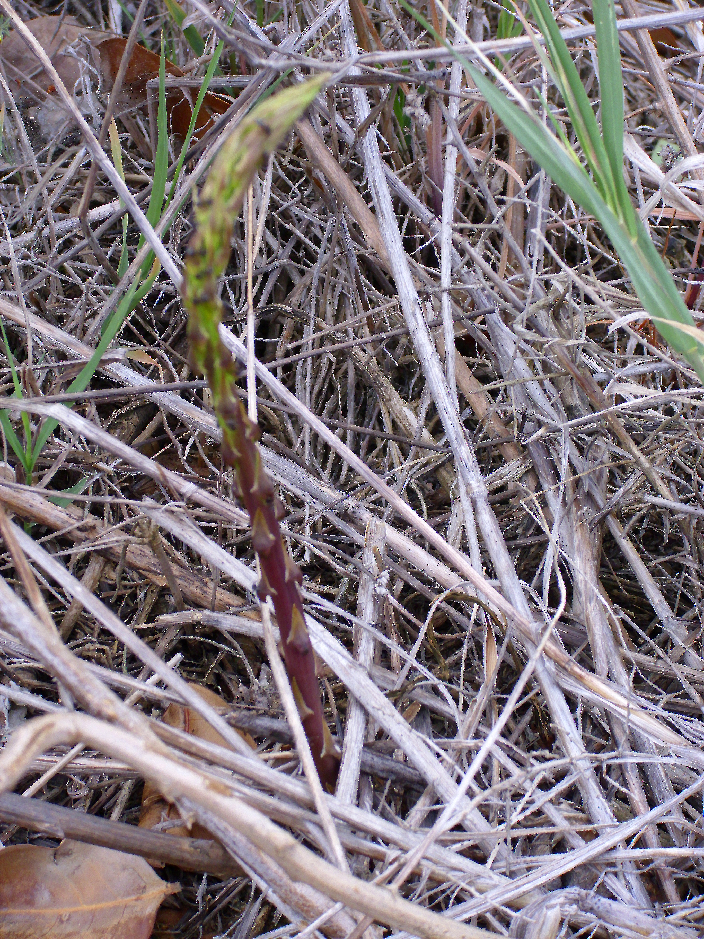 Asparagus acutifolius sprout, Dehesa Boyal de Puertollano, Spain